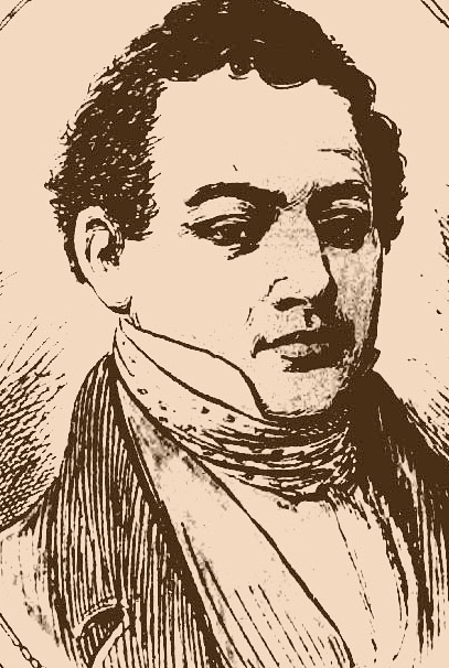 Black and white photo of boxer Dick Curtis with bowtie sash, vest and short hair